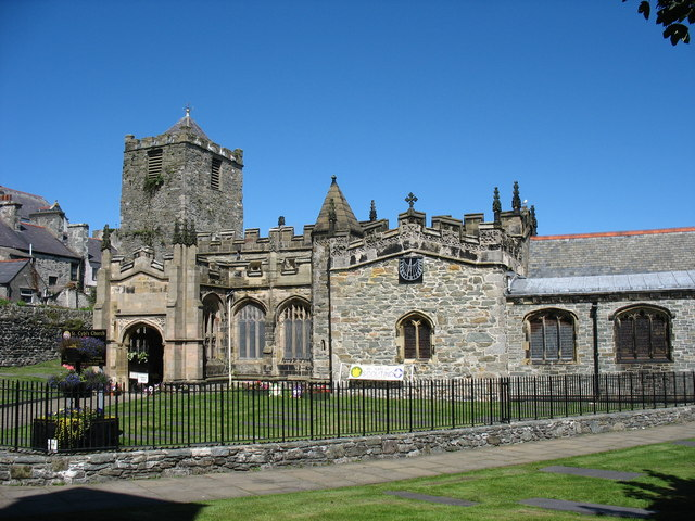 The south facade of St Cybi's Church The features from the left are the tower, surrmounted by weather vane dated 1753, featuring a fish, the south porch and the twin windows of the south aisle. The south trancept occupies the centre of the photo, with the Stanley Chapel of 1879 on the right. Wm. Stanley, a major landowner, was a generous benefactor of both St Cybi Church and the town of Holyhead in general.